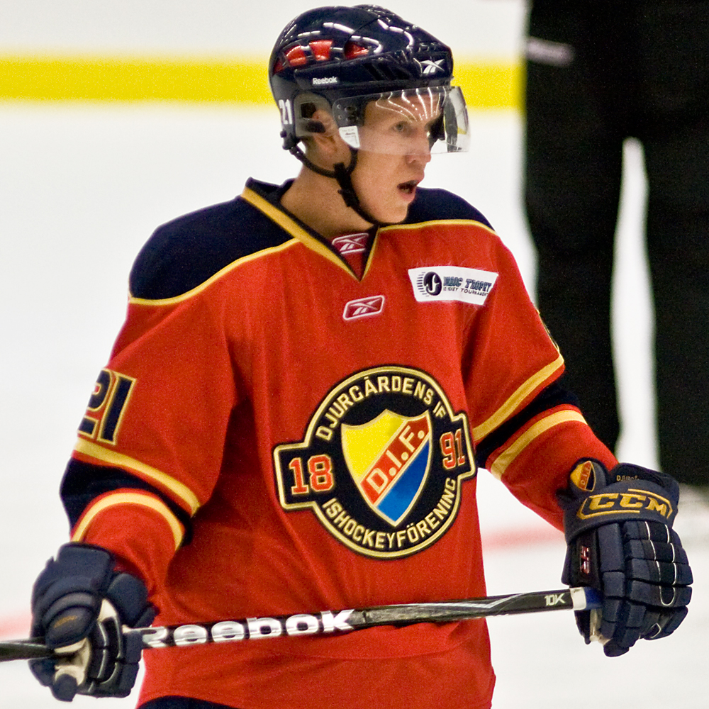 Andreas Engqvist of Djurgårdens IF during a Nordic Trophy game against Frölunda HC in Frölundaborg, Gothenburg, on August 11, 2009.